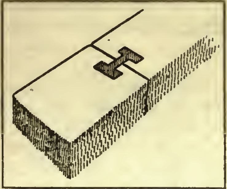 I shape iron connector in Angkor Wat